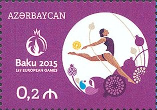 Baku 2015. First European Games.(2nd edition) N 1218 - 20 qapik – Gymnastics Artistic